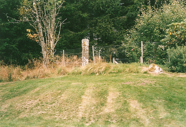 The Giant's Grave Barrow This is the Giant's Grave Barrow at Enochdhu.